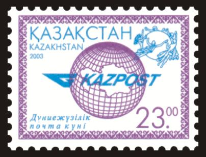 Kazakhstan stamp, World Post Day, 2003, Catalog No. 449.